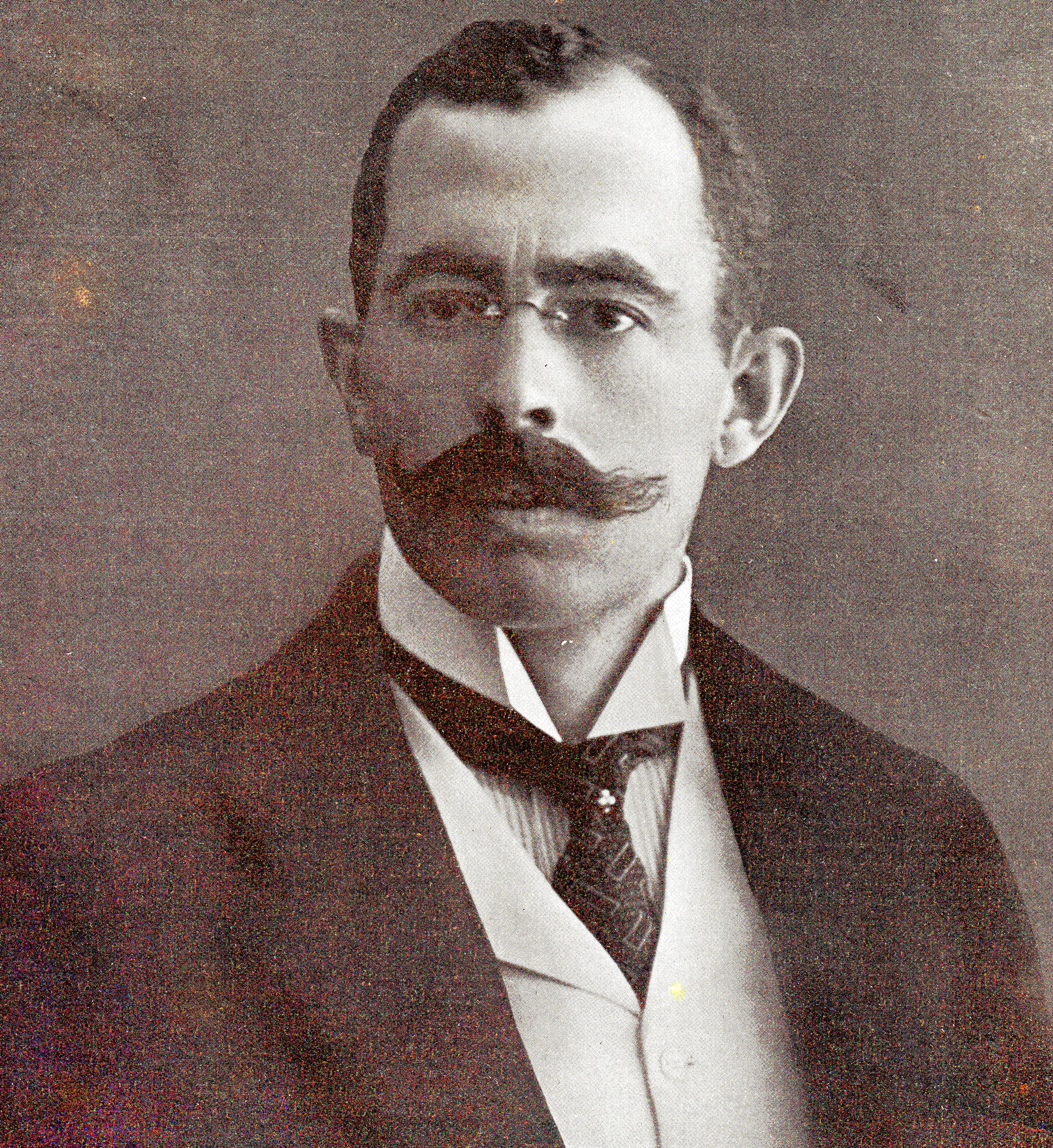 H.A. van Karnebeek